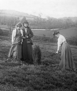 In 1909 Suffragette Clara Codd planting tree with Annie Kenney and Florence Canning invited to "Suffragettes Rest" in Batheaston to celebrate going to jail by planting a tree